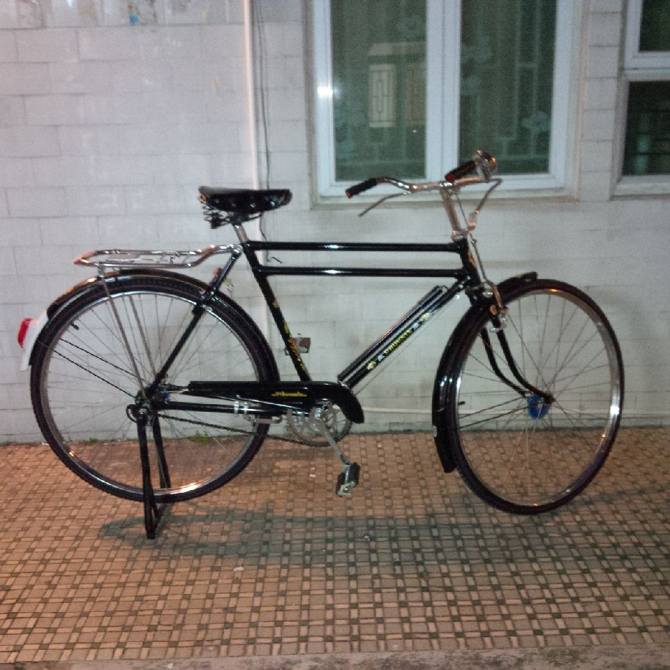 Picture of a Phoneix Bicycle SBP men's version with double tube